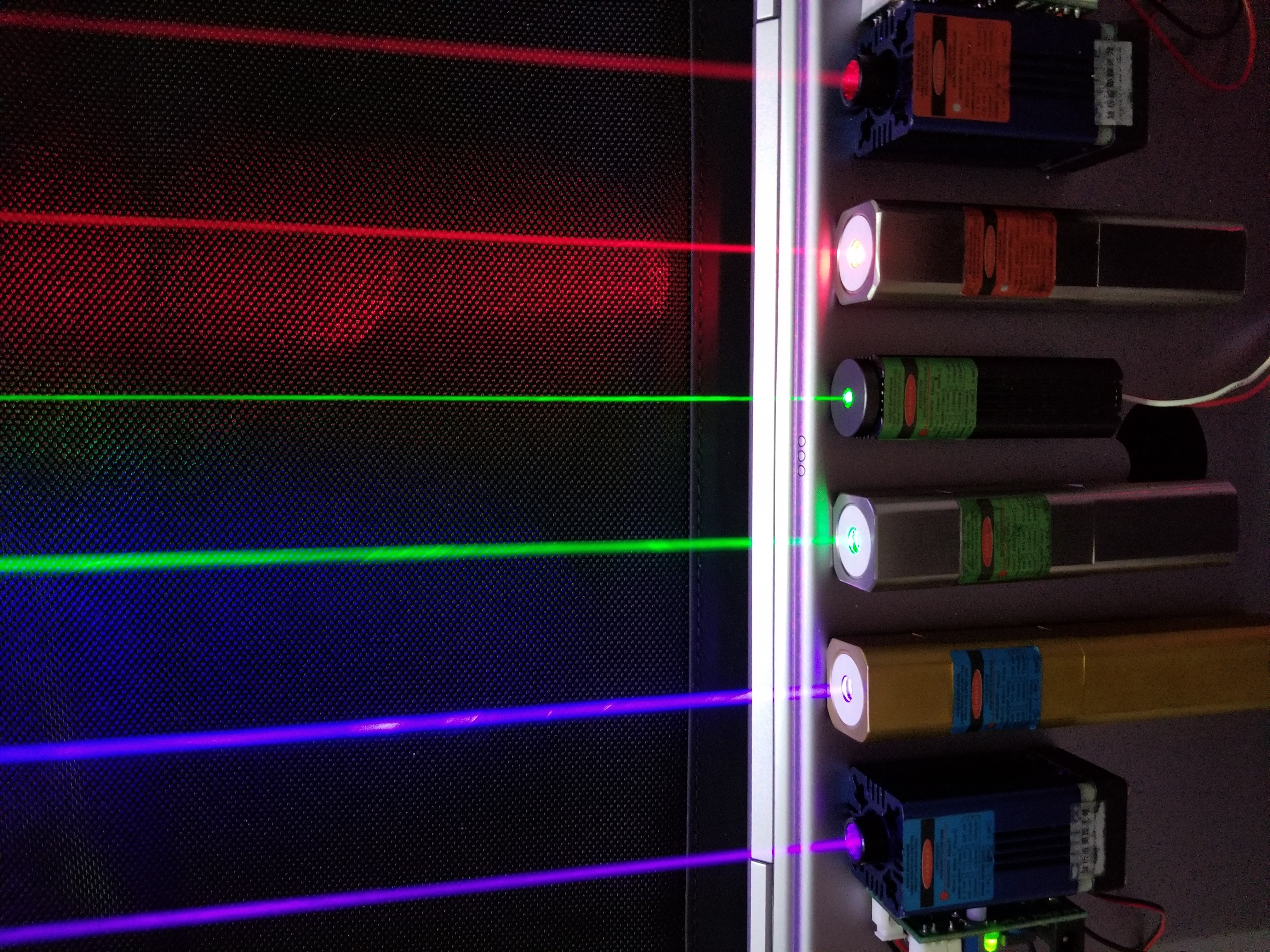 Lasers Red Laser: 660nm, 635nm Green Laser: 532nm, 520nm Blue Laser 445nm, 405nm